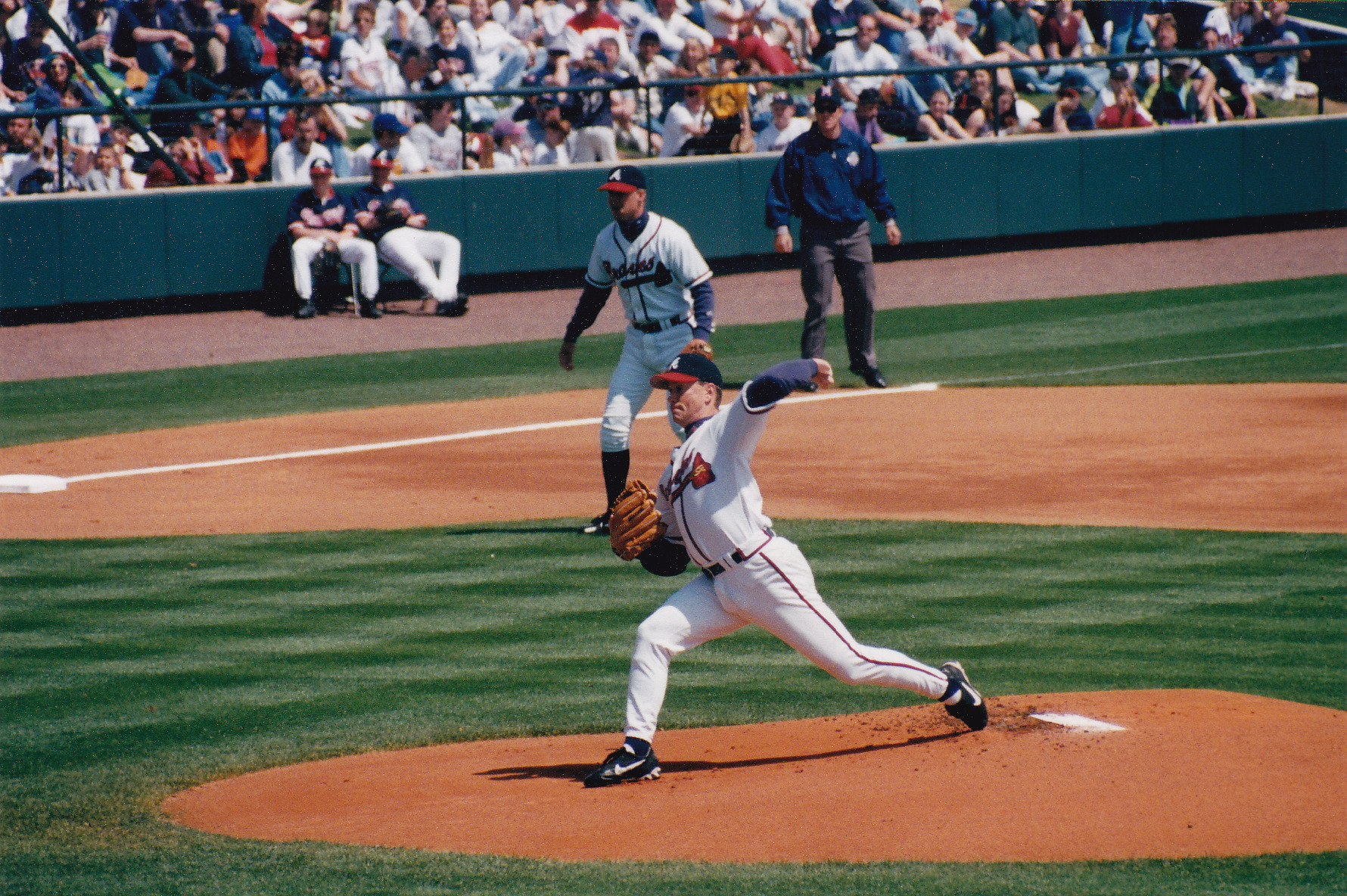 Tom Glavine pitches and Chipper Jones plays third base for the Atlanta Braves against Detroit during a spring training game in Lake Buena Vista, Fla., March 22, 1998.